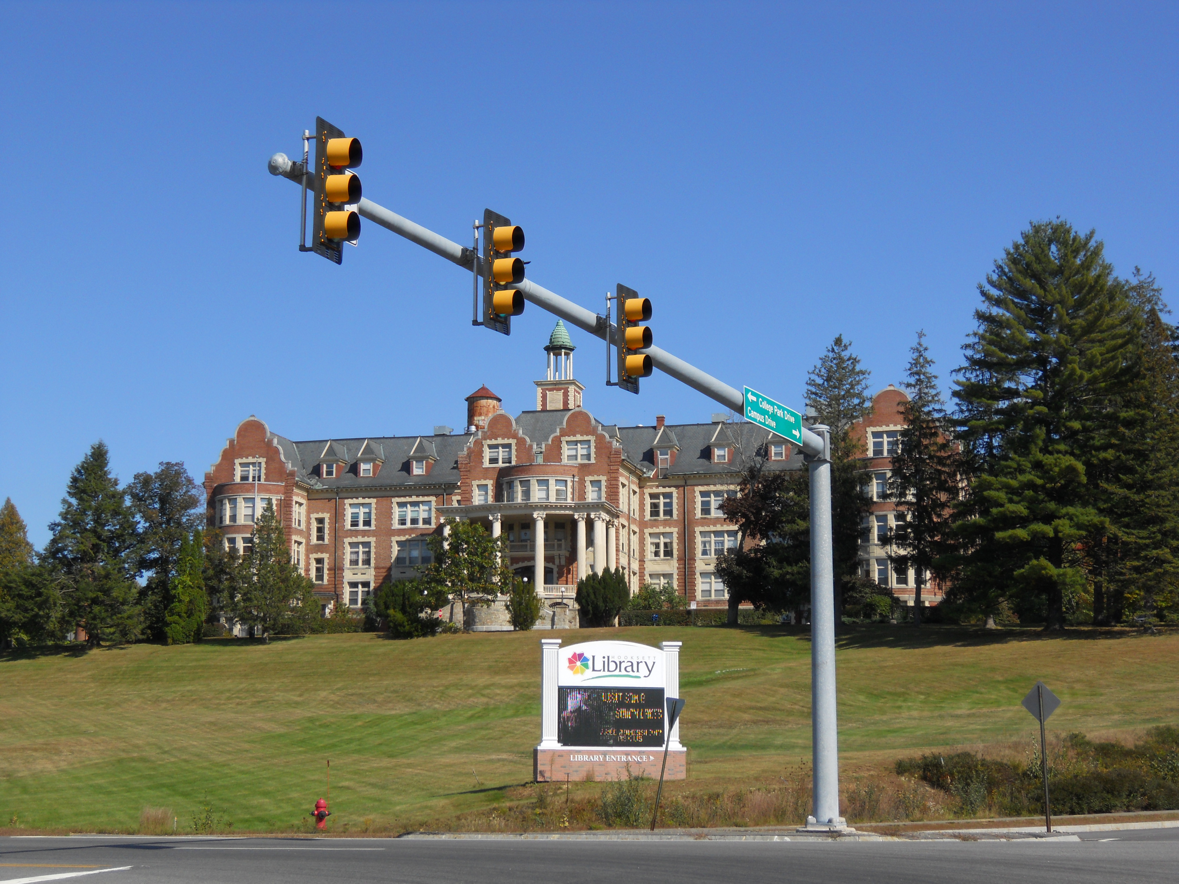 The former Mercy Hall of Mount St. Mary's College in Hooksett, New Hampshire, as seen in 2014